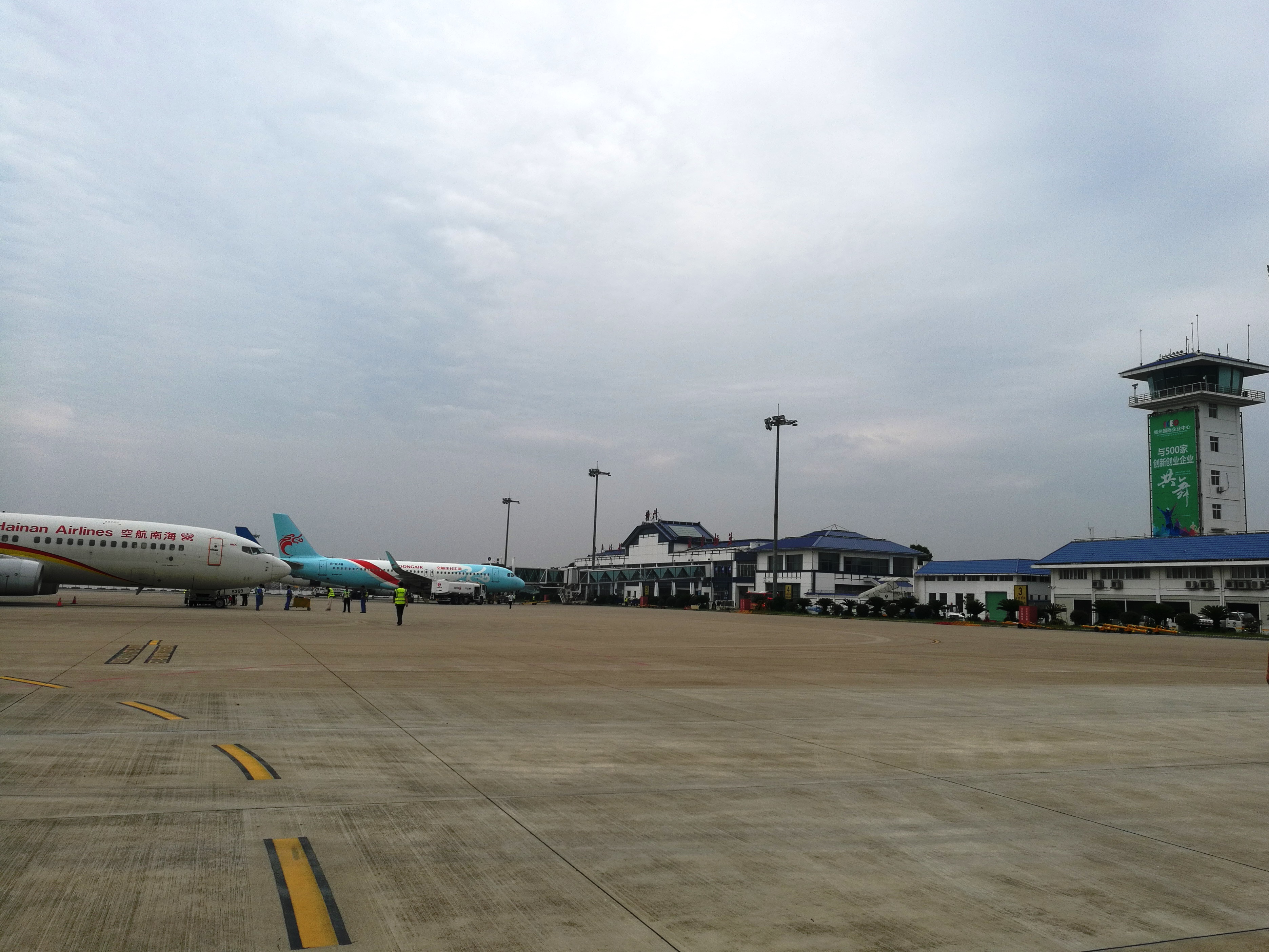 The apron of Ganzhou Huangjin Airport, photographed on June 12, 2018.